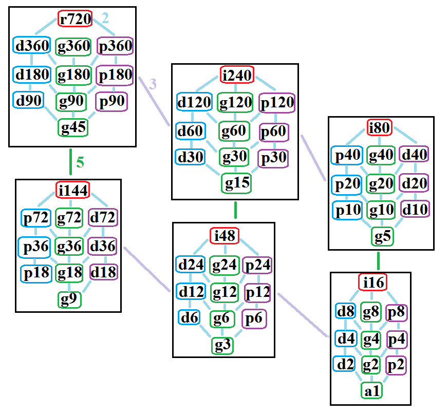 en:360-gon symmetries